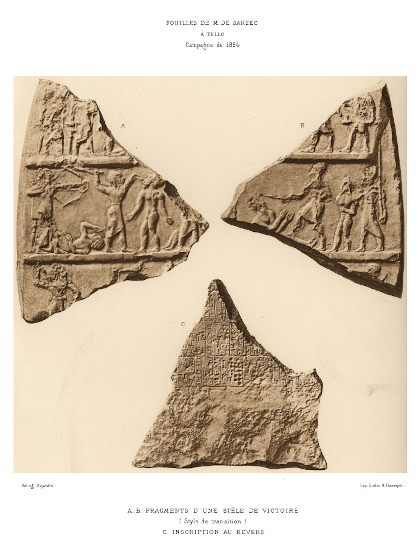 Fragments of the Victory Stele of Rimush (Heuzey)